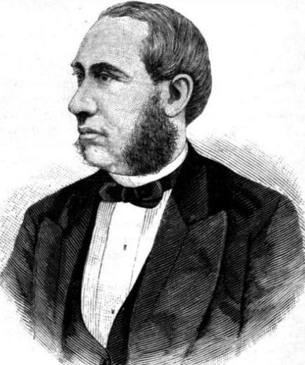 William A. Russell, US Representative from Massachusetts